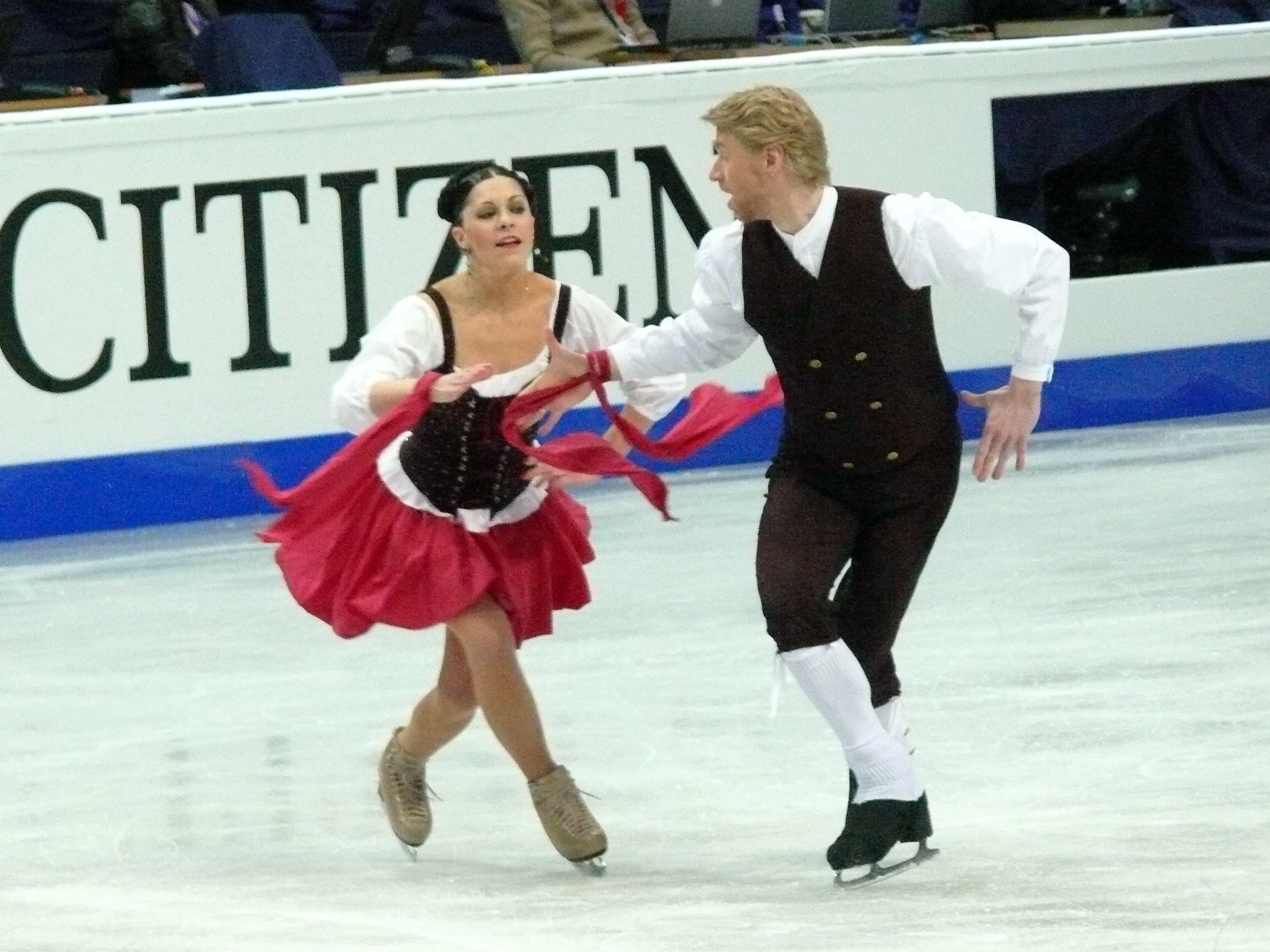 Isabelle Delobel and Olivier Schoenfelder (FRA) at their original dance at the World Championships in Figure Skating 2008 in Göteborg (SWE). (Folk, Country)